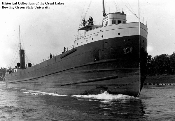 The steamer William E. Reis underway